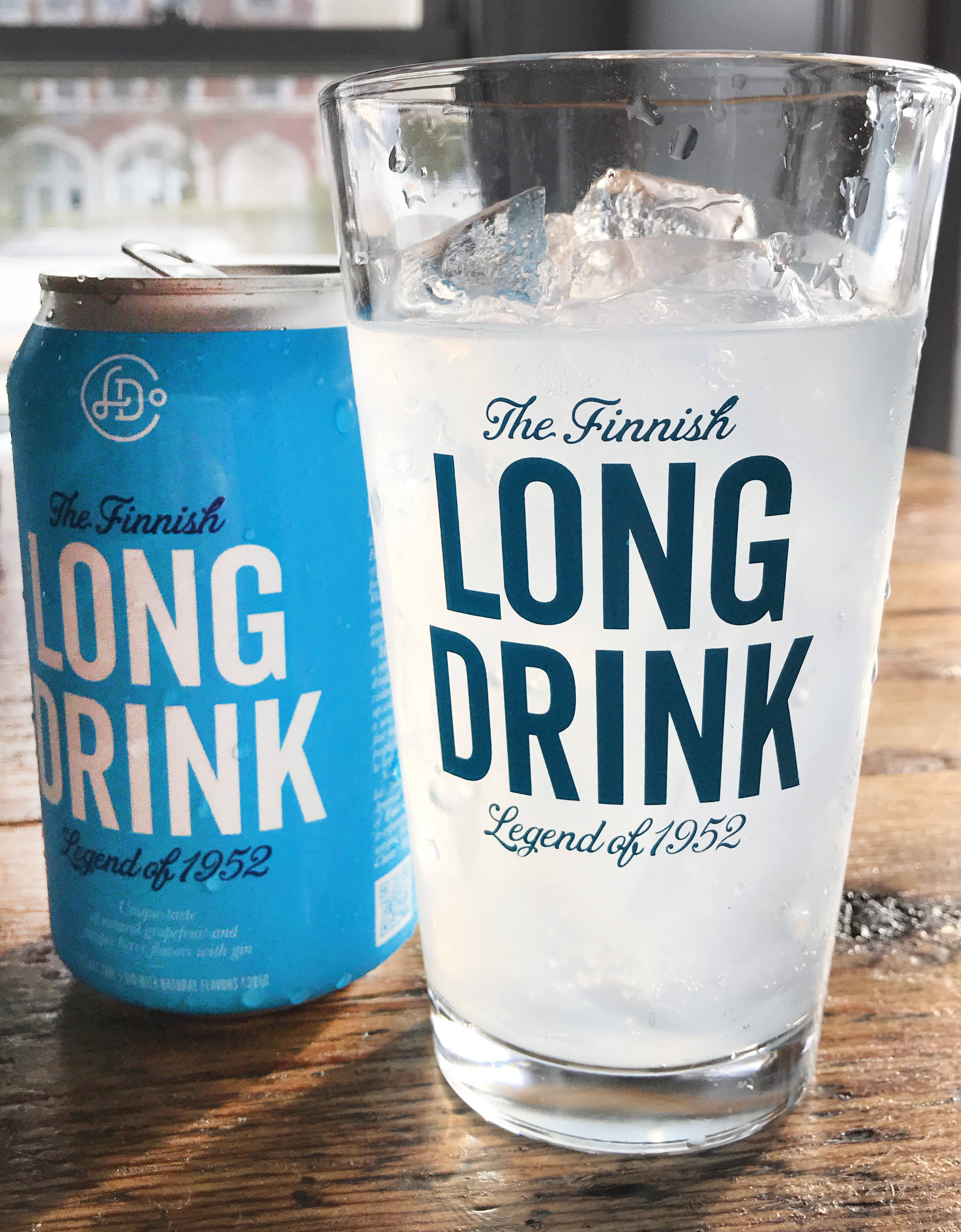 First ever long drink sold in the United States